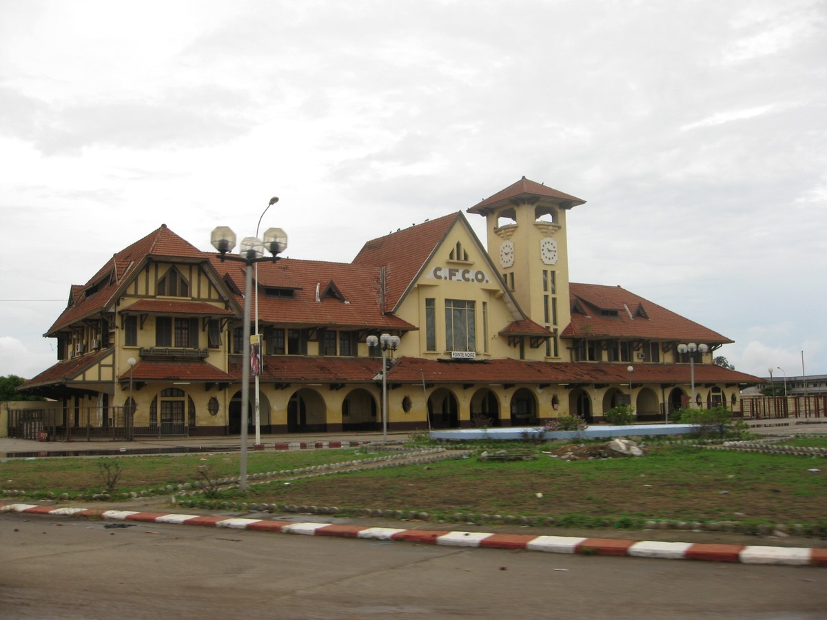 Pointe-Noire Railway station — in Pointe-Noire, the Republic of the Congo. 中文（中国大陆）: 刚果（布）黑角火车站